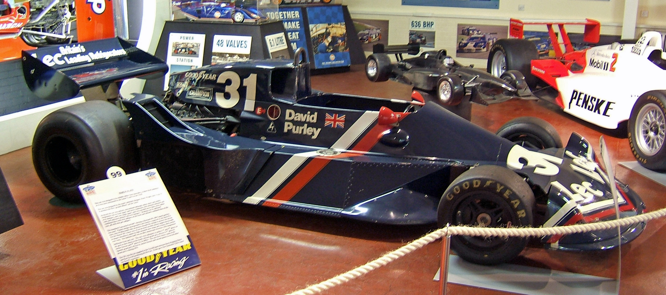 The LEC CRP1 Formula One car of 1977. In the Donington Grand Prix Collection, Leics., UK.